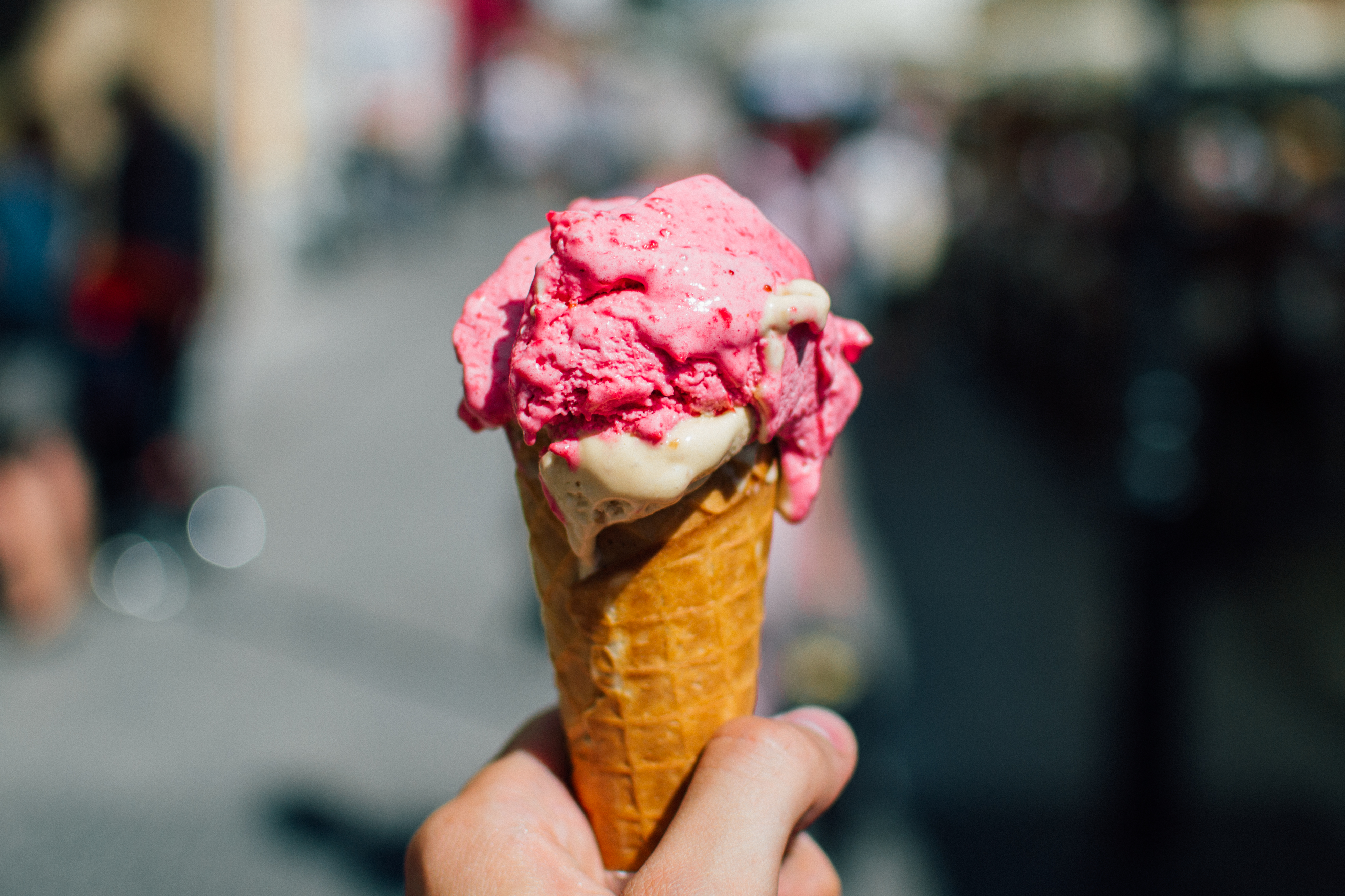 food-ice-cream